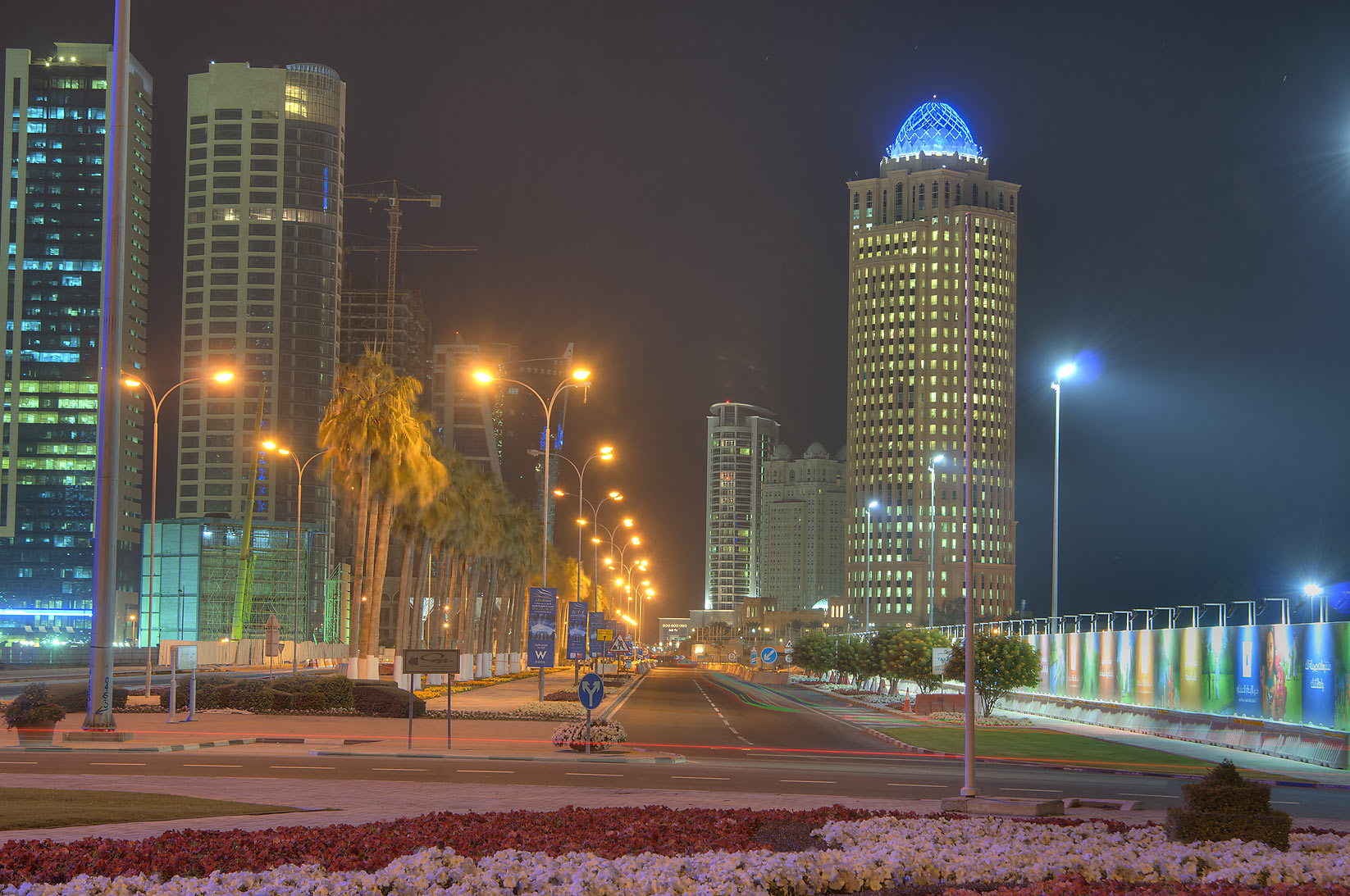 QTel Tower (Ooredoo; right) and Diplomatic Street in West Bay, Doha, Qatar.